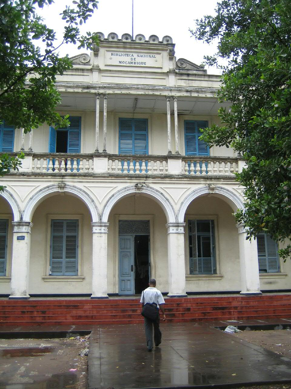 National Library, Maputo, Mozambique